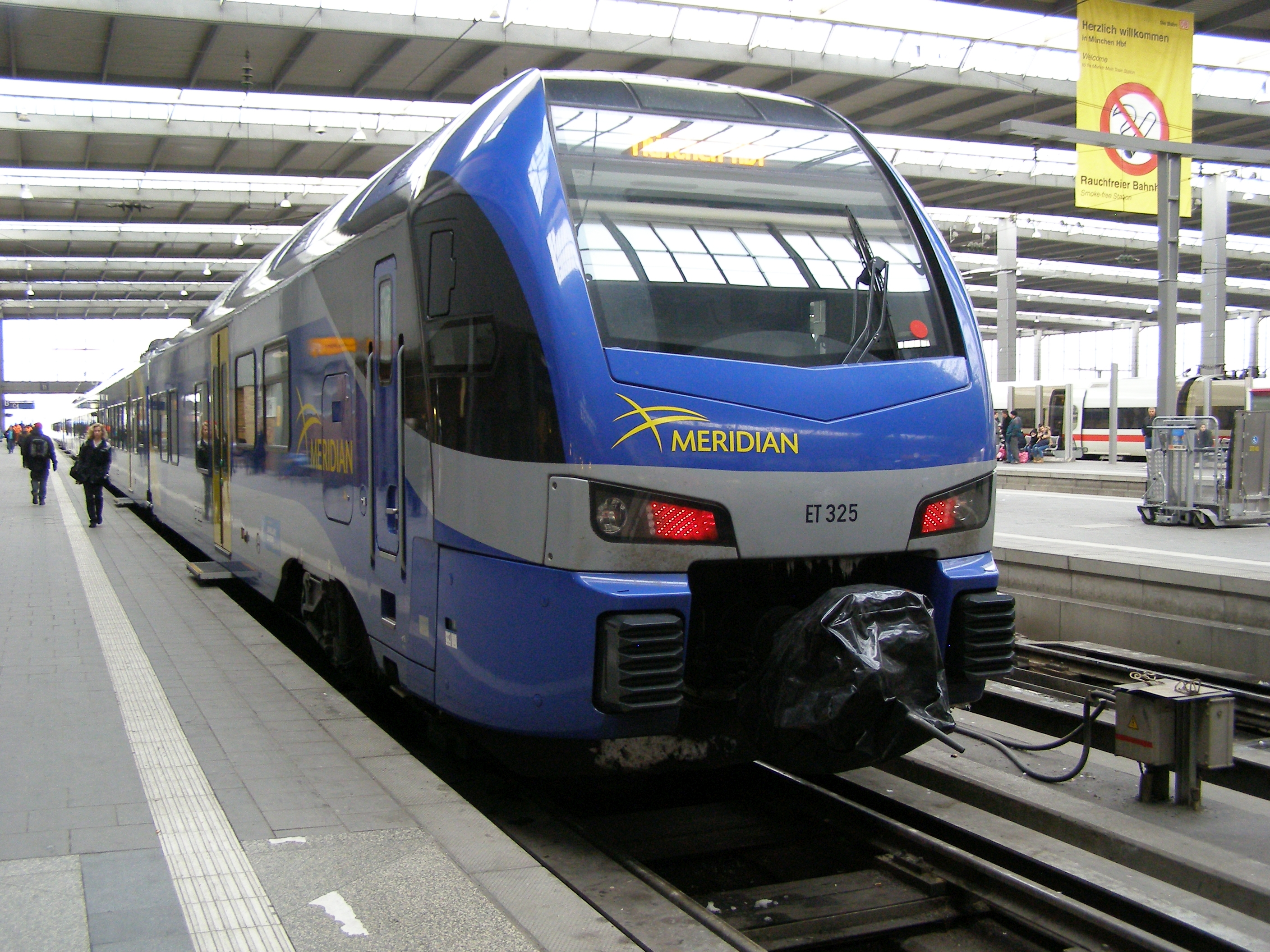 München Hbf. - Meridian (Bayerische Oberlandbahn) Stadler FLIRT ET 325 train